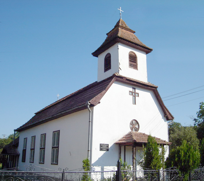 Roman catholic church in Lutoasa (hu. Csomortán), Covasna County, Transylvania